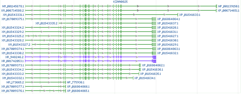 These are the alternative splices forms of c5orf36 (aka KIAA0825). The short vertical lines across are the exons. Each isoform is labeles with the access number for the gene on the left, and the access number for the protein on the right. The green lines are for proteins. The purple lines are mRNA.